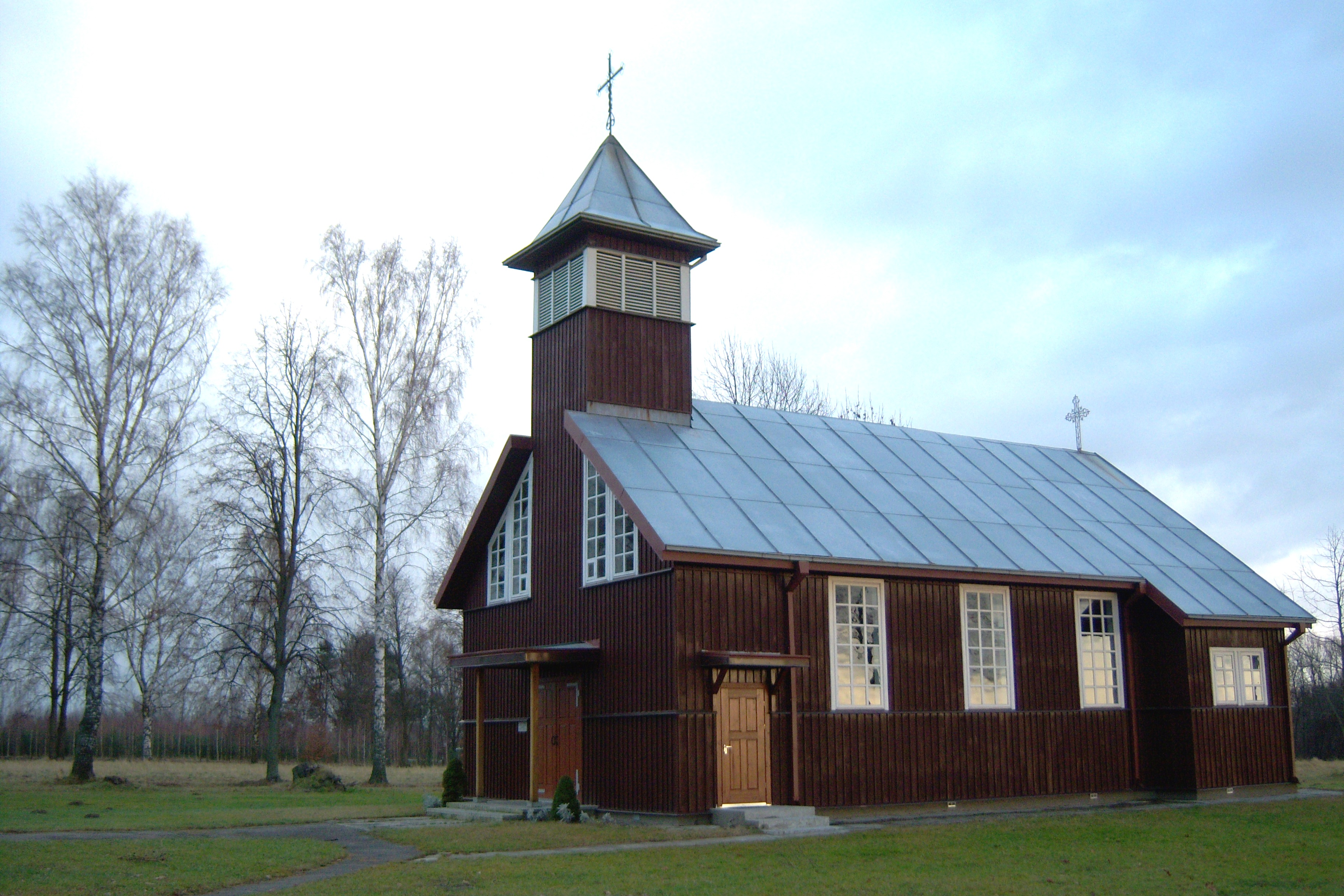 Viršužiglis chapel, Kaunas District. Lithuania